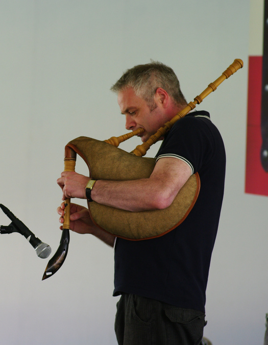 Ceri Rhys Matthews playing the Welsh Bagpipes in Washington